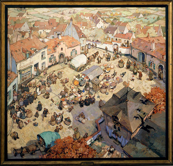 Ref.: PMa_B_160_Tournai; En Ballon; Romeo Dumoulin; Musée des Beaux Arts; Tournai; Belgium; Hainaut; Cultural heritage; Cultural heritage|Painting; Europeana; Europe|Belgium|Tournai-Doornik; ; © Paul M.R. Maeyaert